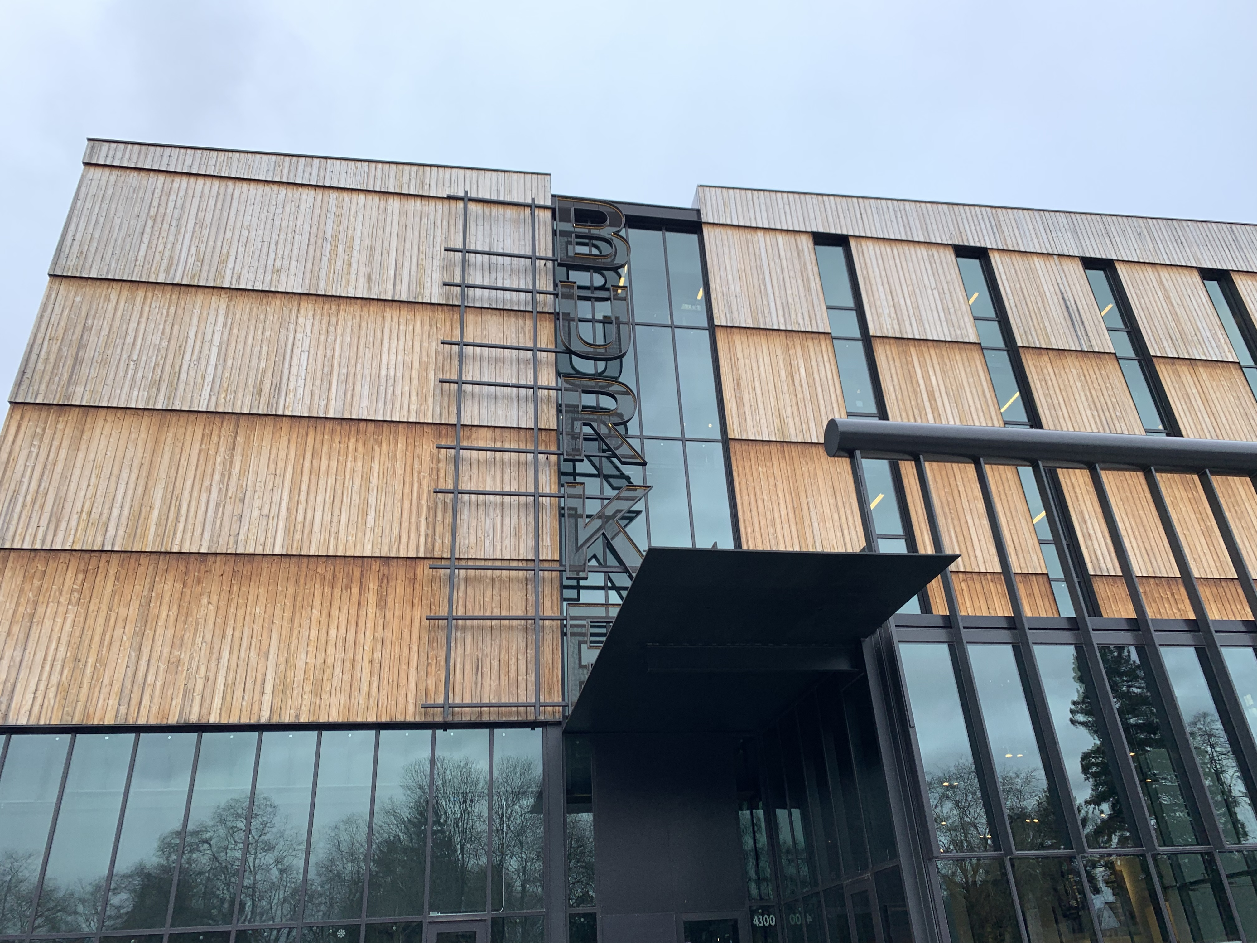 Main entrance to the new Burke Museum building in January 2020. Picture taken by Tanis Coralee Leonhardi Tuesday January 21, 2020.